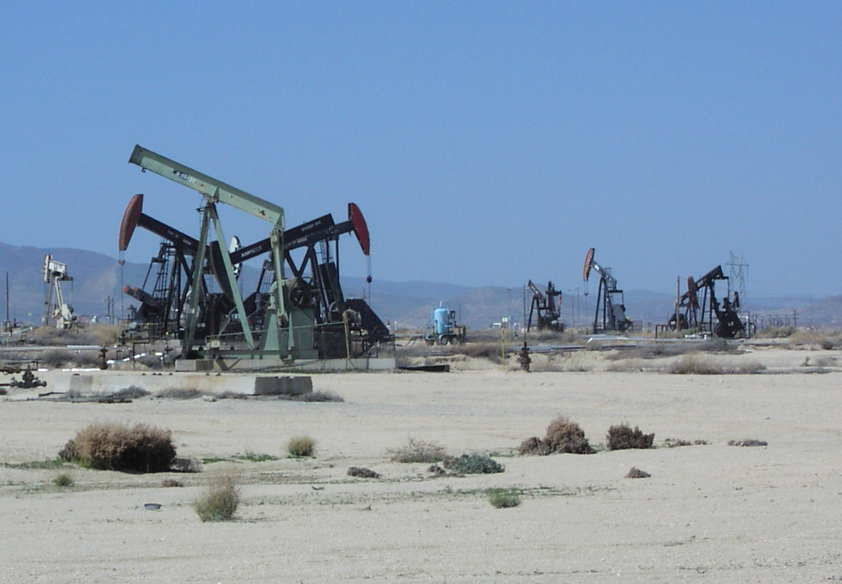 Oilfield operations at Cymric Oil Field, Kern County, California.